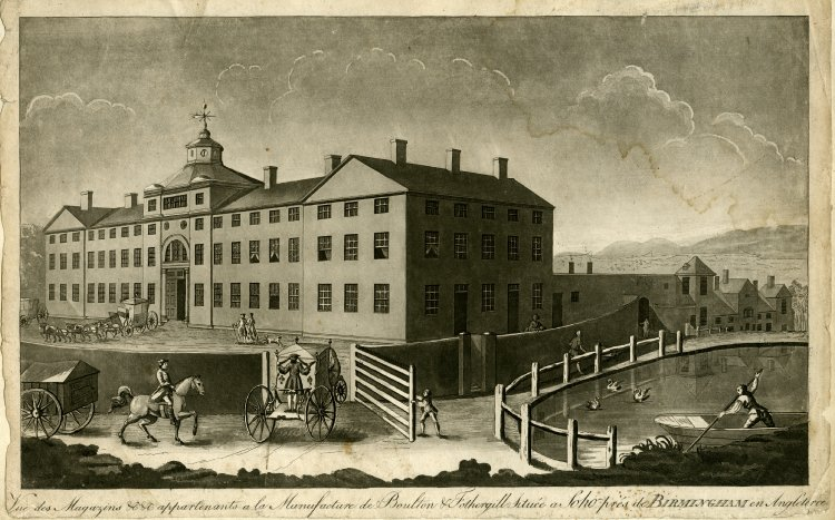 "Vue des Magazins & appartenants a la Manufacture de Boulton & Fothergill Située a Soho prés de Birmingham en Angleterre" aquatint over etching. 224 mm x 355 mm.